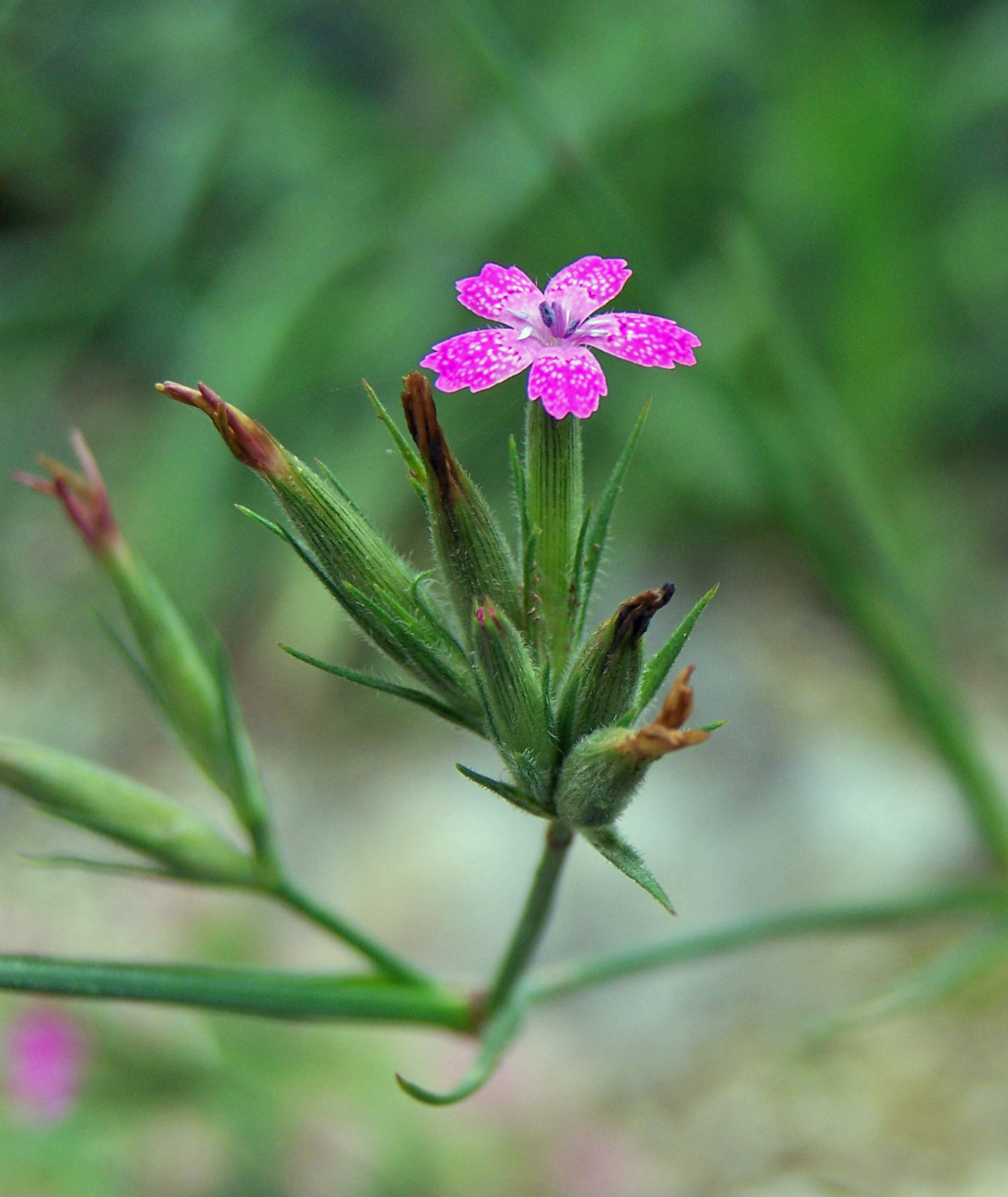 Species: Diánthus Arméria L. Common En-name: Deptford Pink. Common Ge-name: Raue Nelke, Büschel-Nelke. Description in